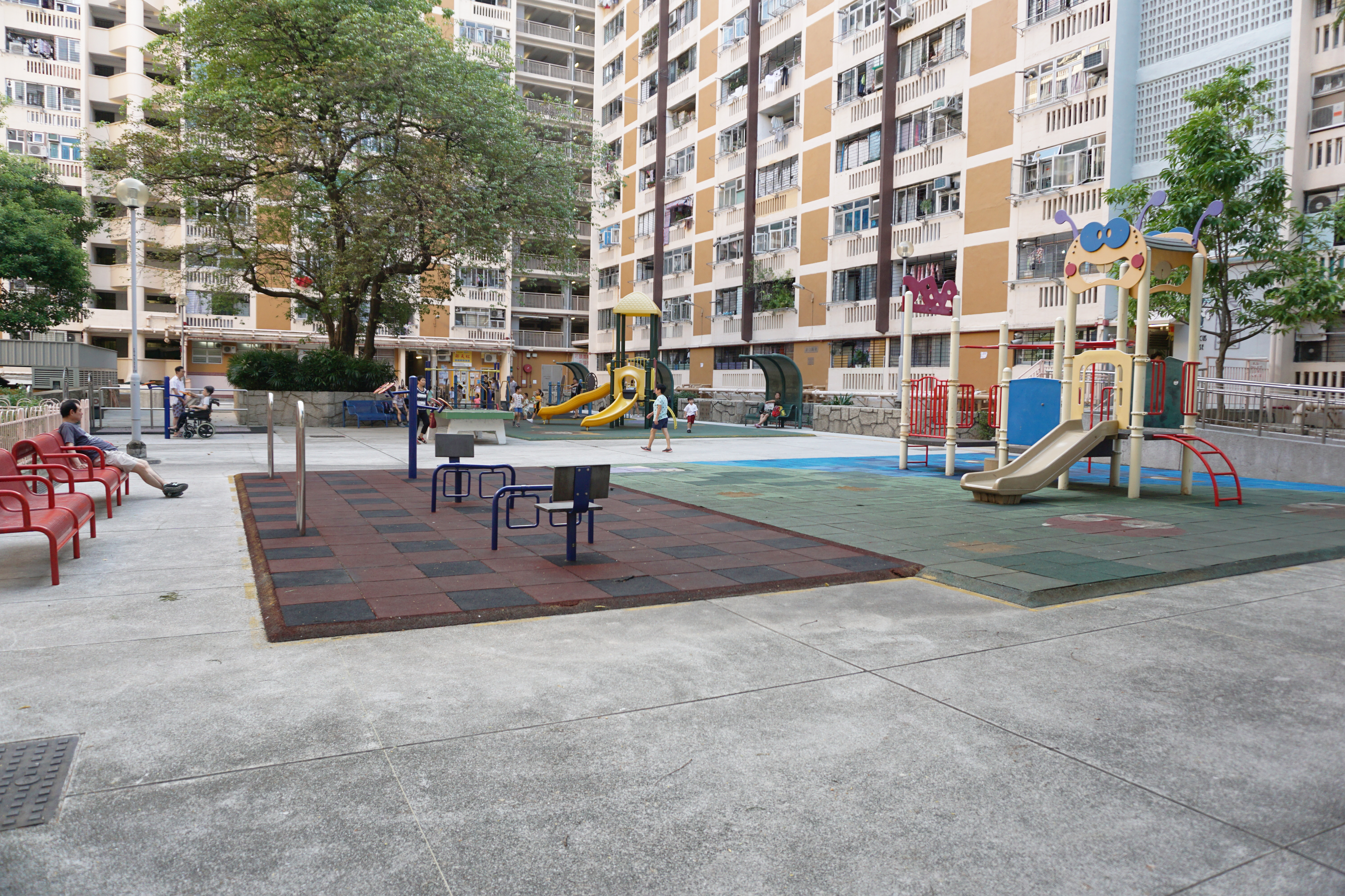 Ma Tau Wai Estate in Ma Tau Wai, Hong Kong.